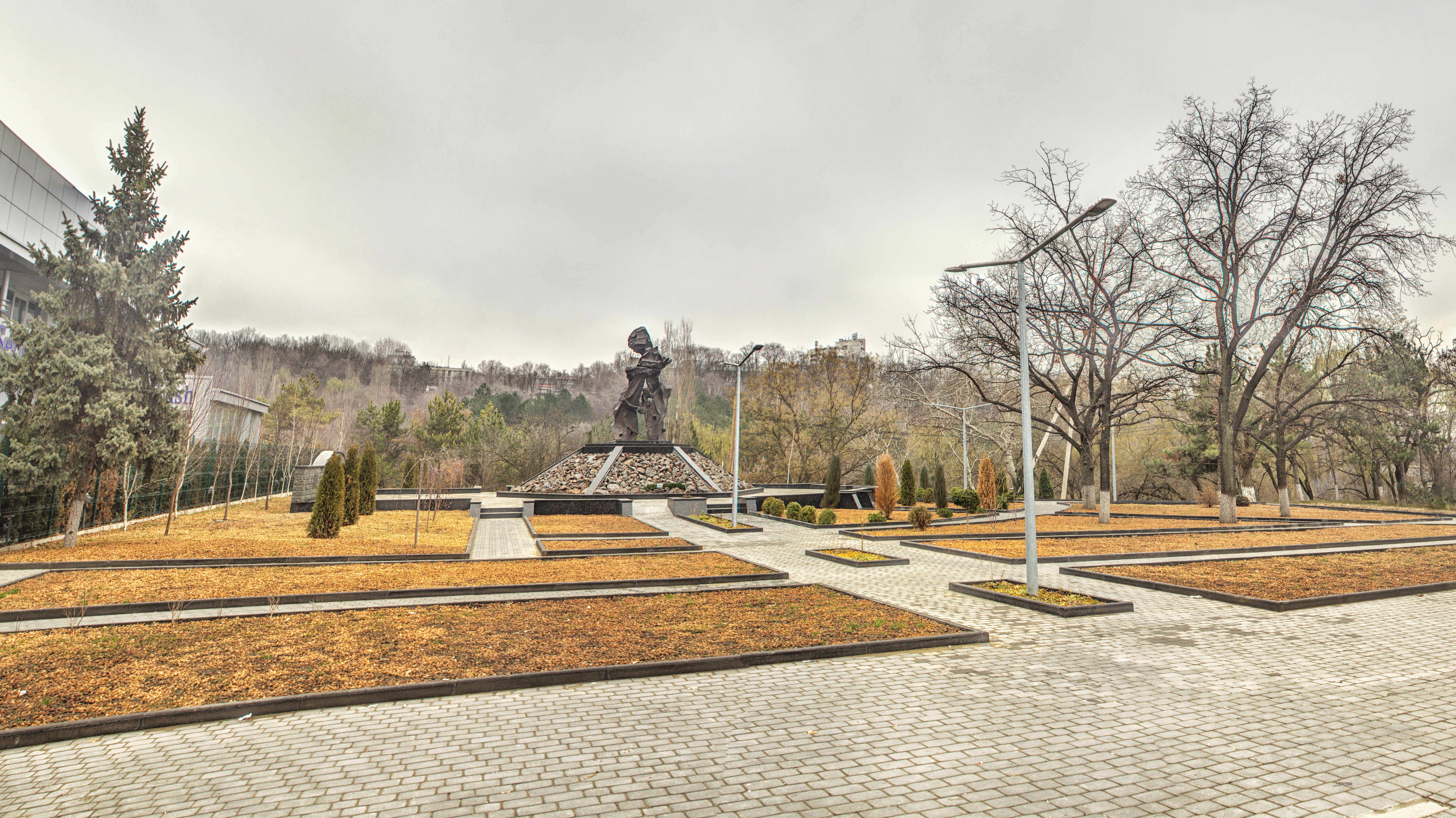 Memorial 'Victims of Fascism' after the restoration. Chisinau, Republic of Moldova. 2015